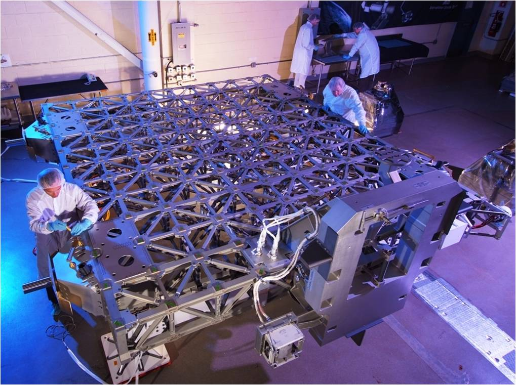 ELC in Fabrication